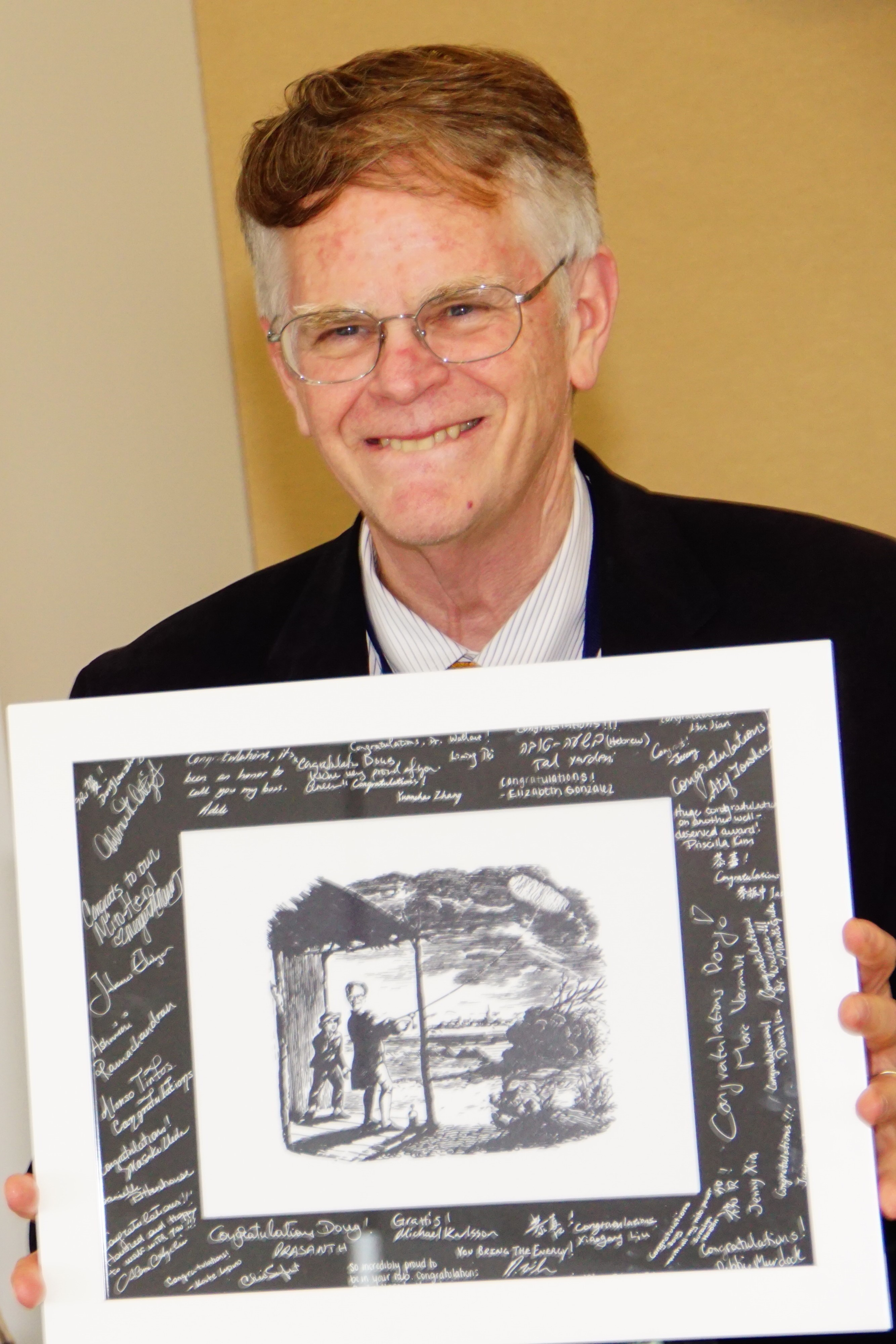 Doug with his gift